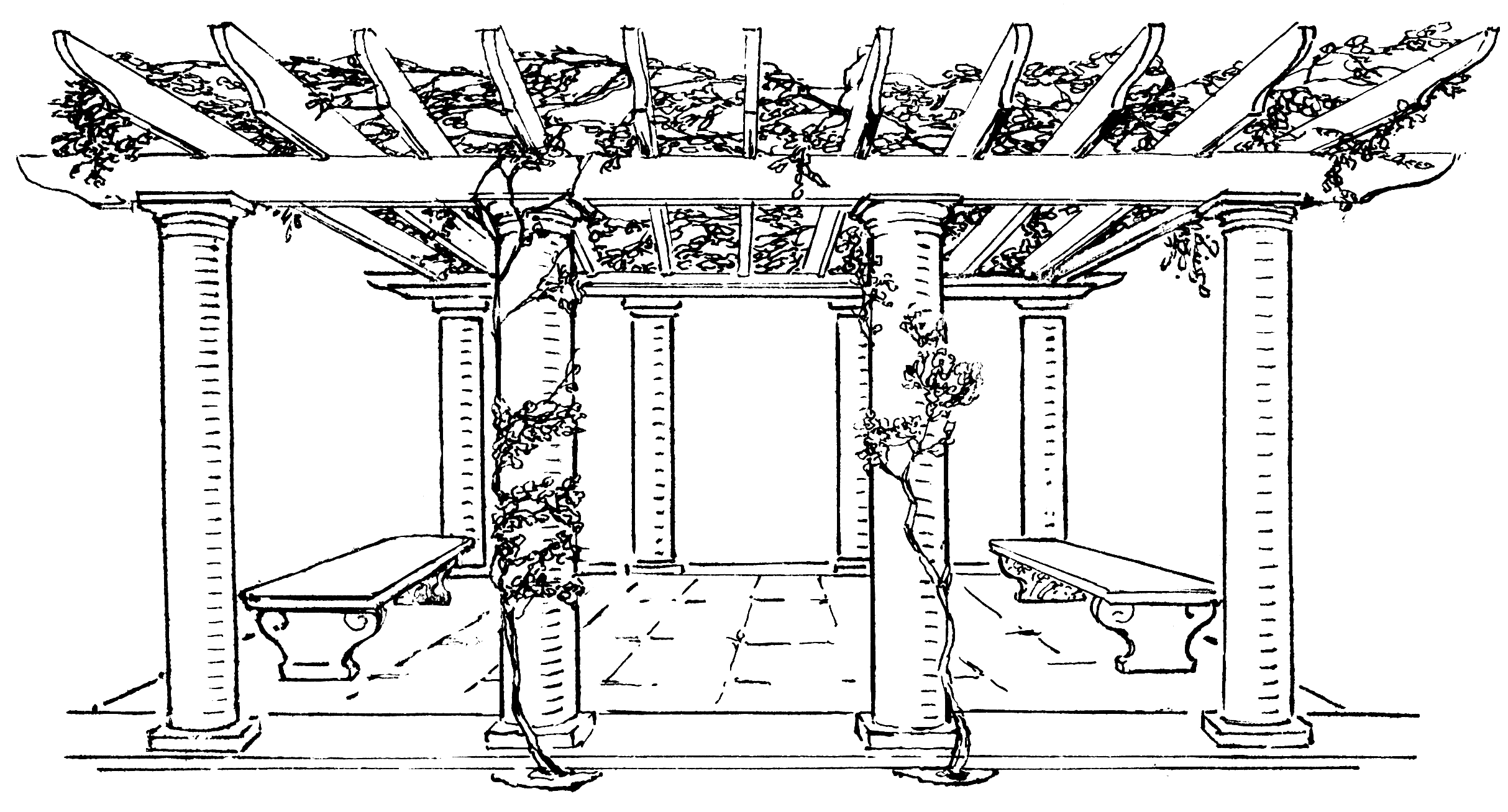 Line art drawing of a pergola